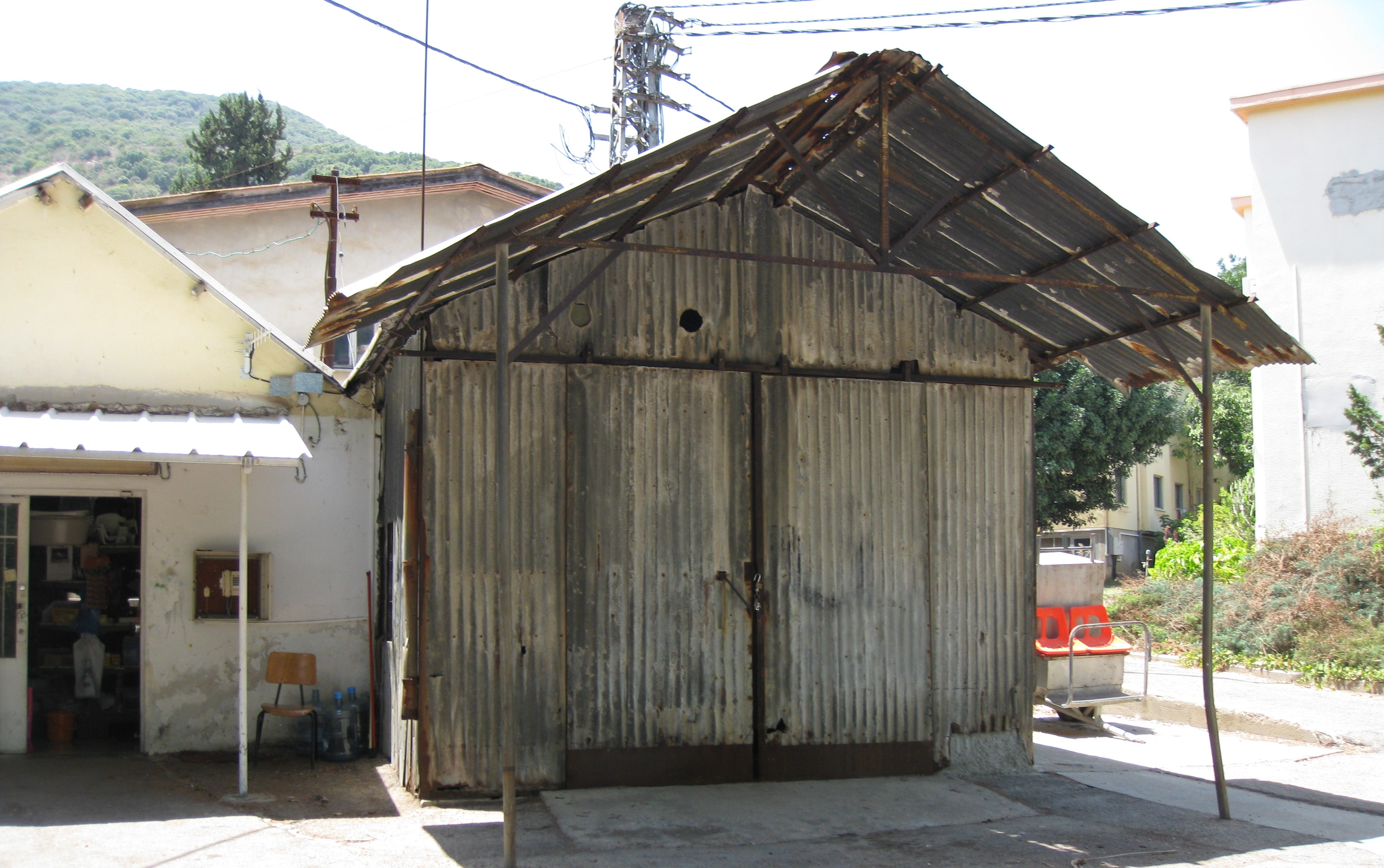 "Slik" - Hagana arms cache in Kibutz Yagur